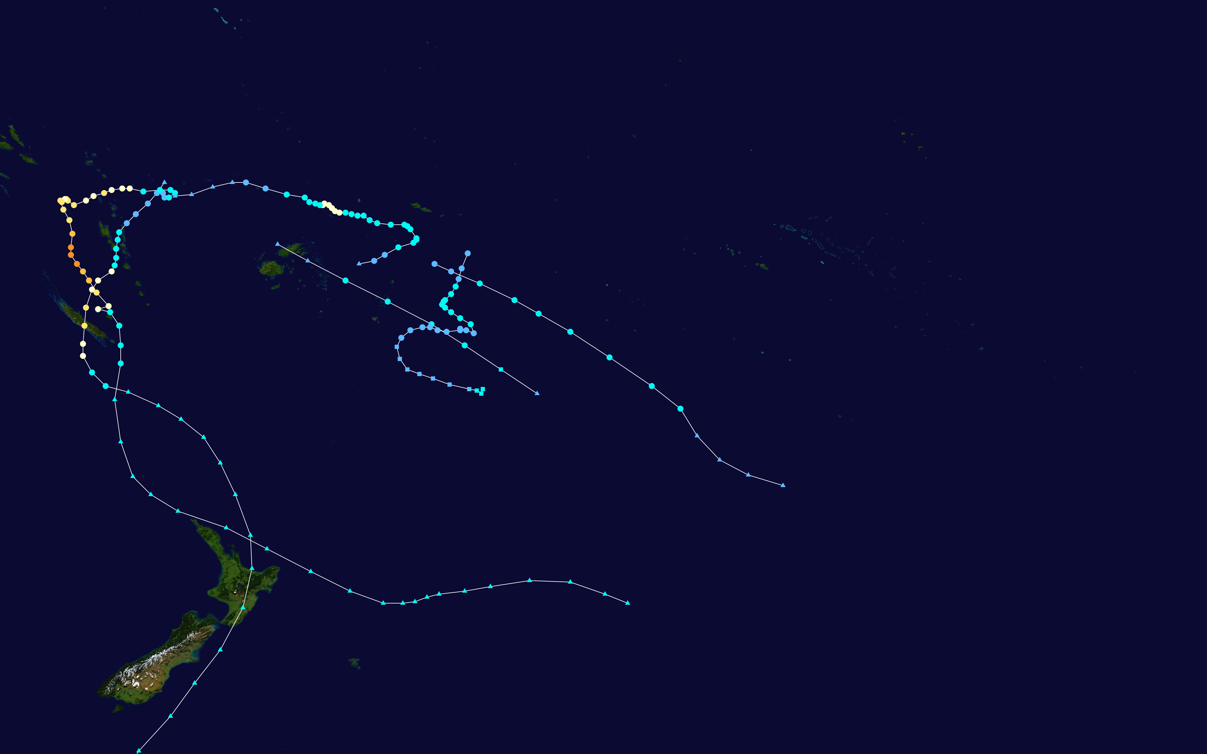 This map shows the tracks of all tropical cyclones in the 2016-17 South Pacific cyclone season. The points show the location of each storm at 6-hour intervals. The colour represents the storm's maximum sustained wind speeds as classified in the Saffir-Simpson Hurricane Scale (see below), and the shape of the data points represent the type of the storm. Saffir–Simpson scale Tropical depression≤38 mph≤62 km/h Category 3111–129 mph178–208 km/h Tropical storm39–73 mph63–118 km/h Category 4130–156 mph209–251 km/h Category 174–95 mph119–153 km/h Category 5≥157 mph≥252 km/h Category 296–110 mph154–177 km/h Unknown Storm type Tropical cyclone Subtropical cyclone Extratropical cyclone / Remnant low / Tropical disturbance / Monsoon depression